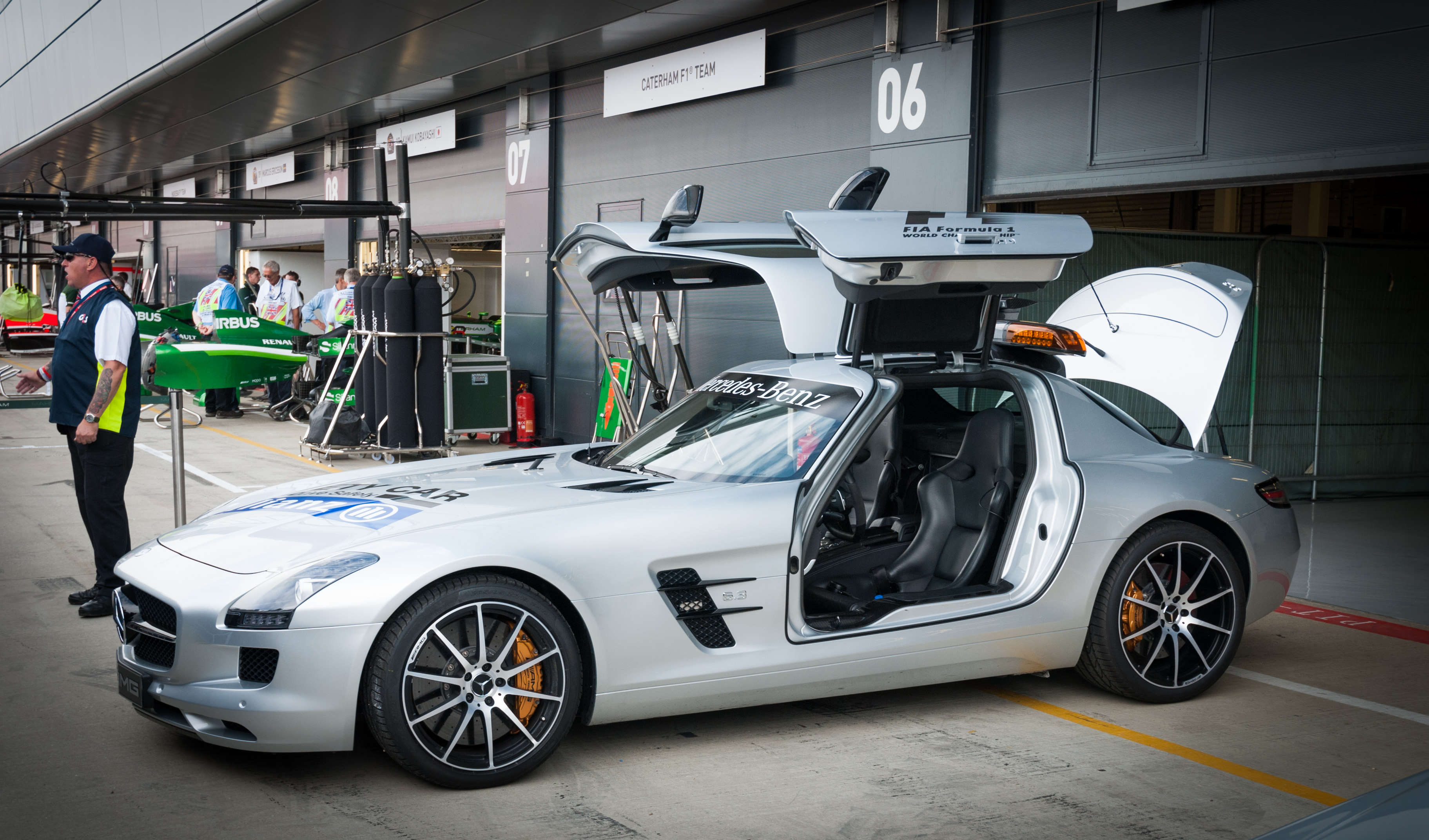 The F1 Safety Car at the 2014 British Grand Prix, Silverstone.